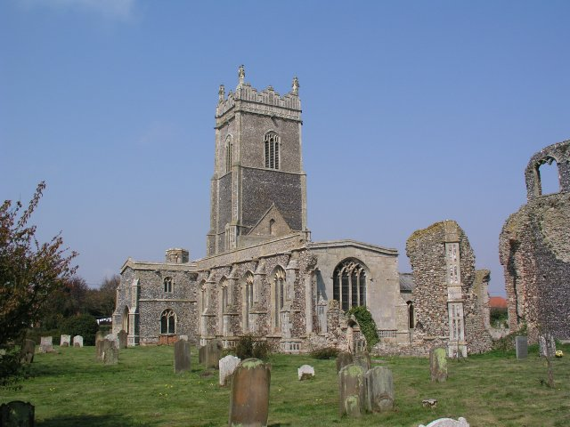 Church of St Andrew in Walberswick, Suffolk, England. A Grade I listed medieval church.